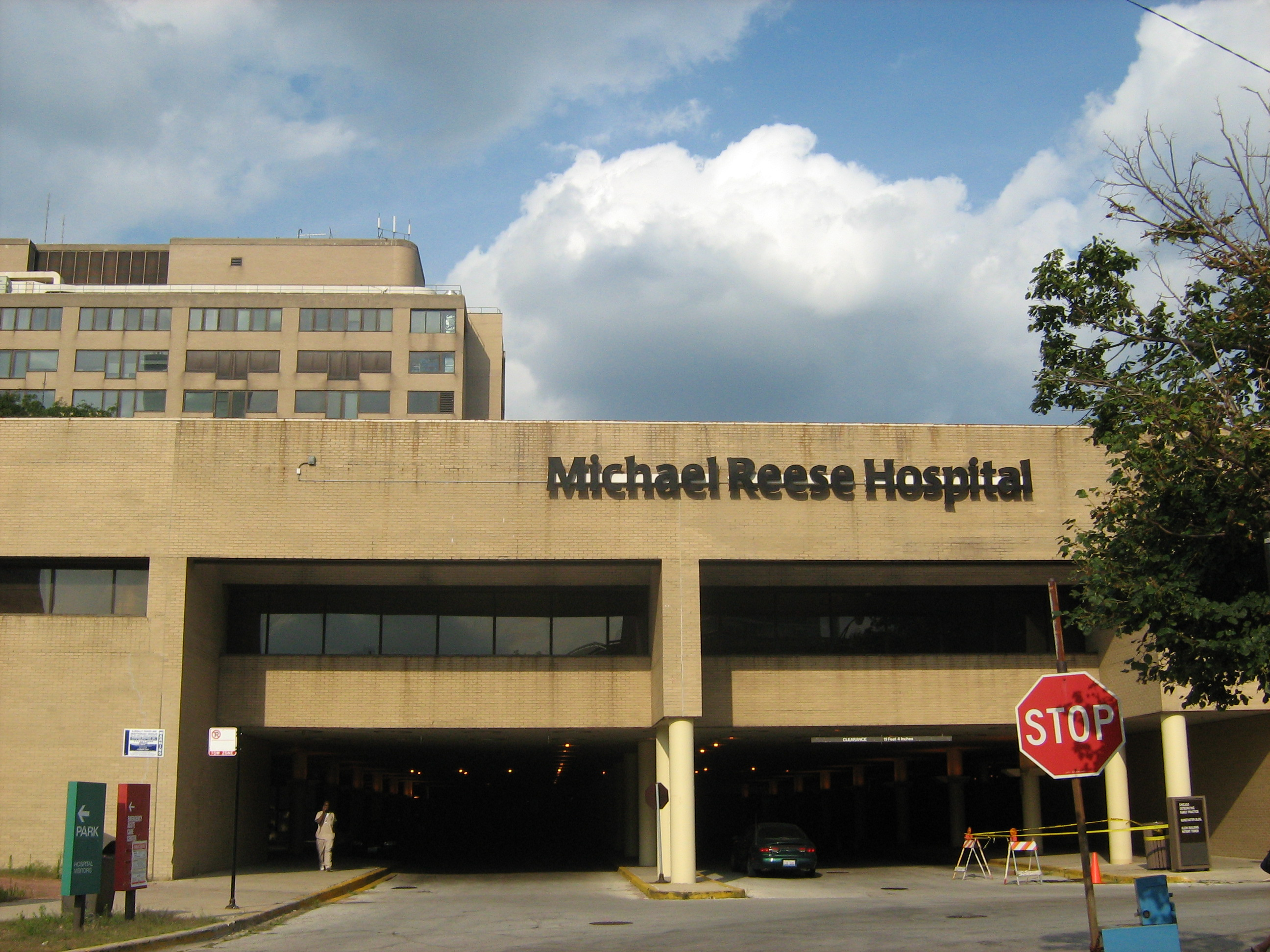 2929 S. Ellis Ave Chicago, IL 60616 (312) 791-2000